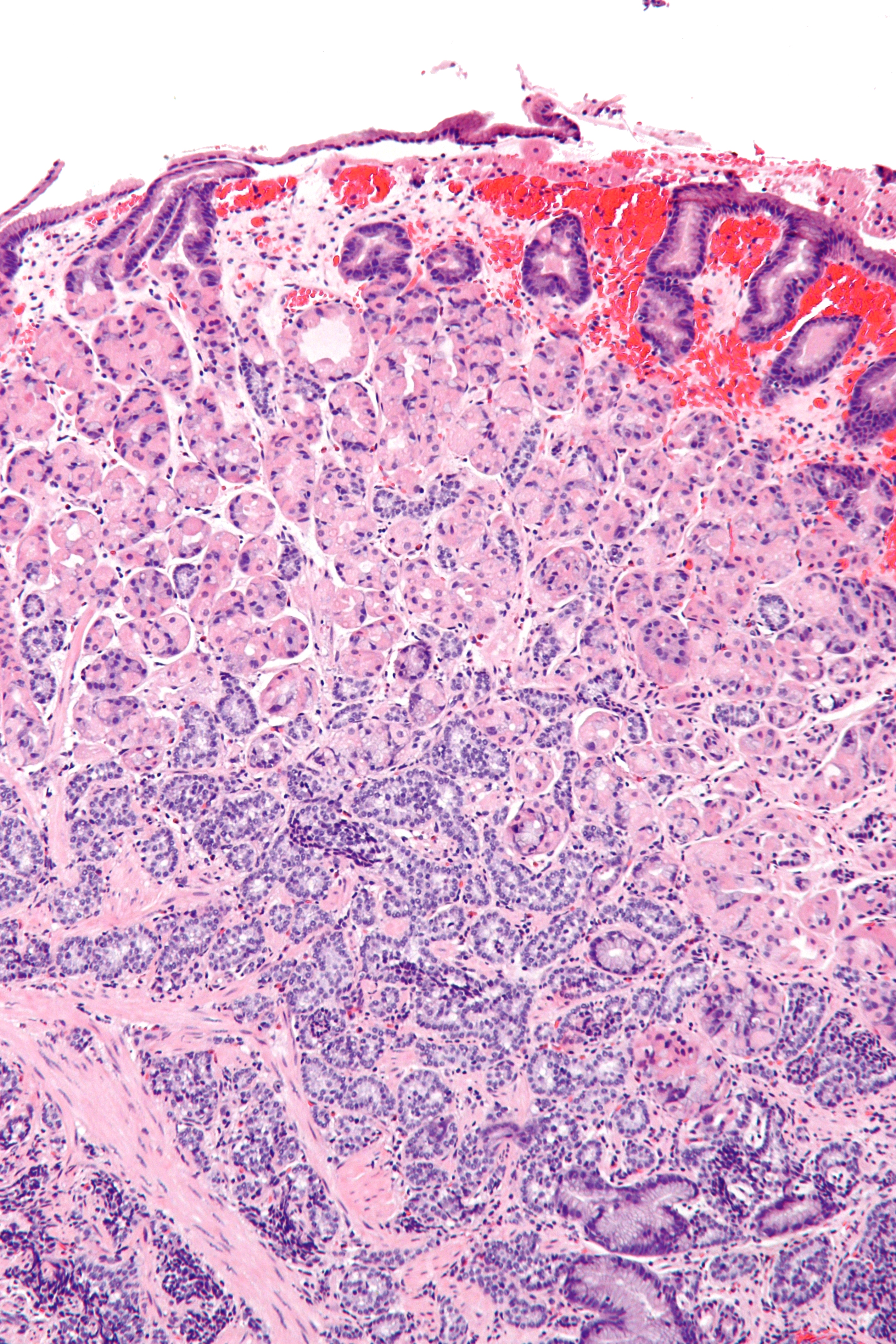 Intermediate magnification micrograph of a gastric neuroendocrine tumour, abbreviated NET. Also known as neuroendocrine tumour of the stomach. May be spelled gastric neuroendocrine tumor. H&E stain. Related images Low mag. Intermed. mag. High mag. Very high mag.